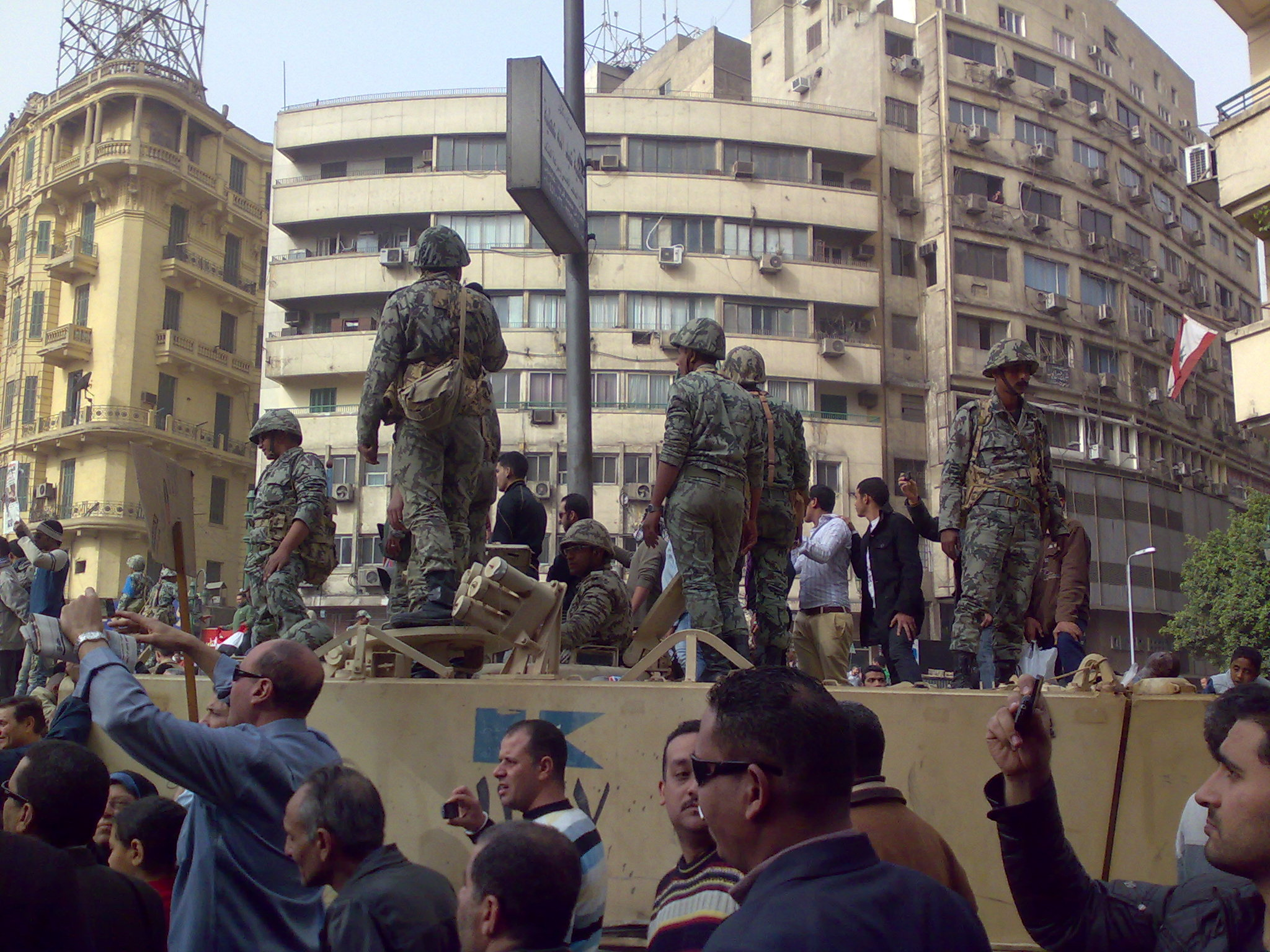 29 January 2011 Photographed by: Ramy Raoof